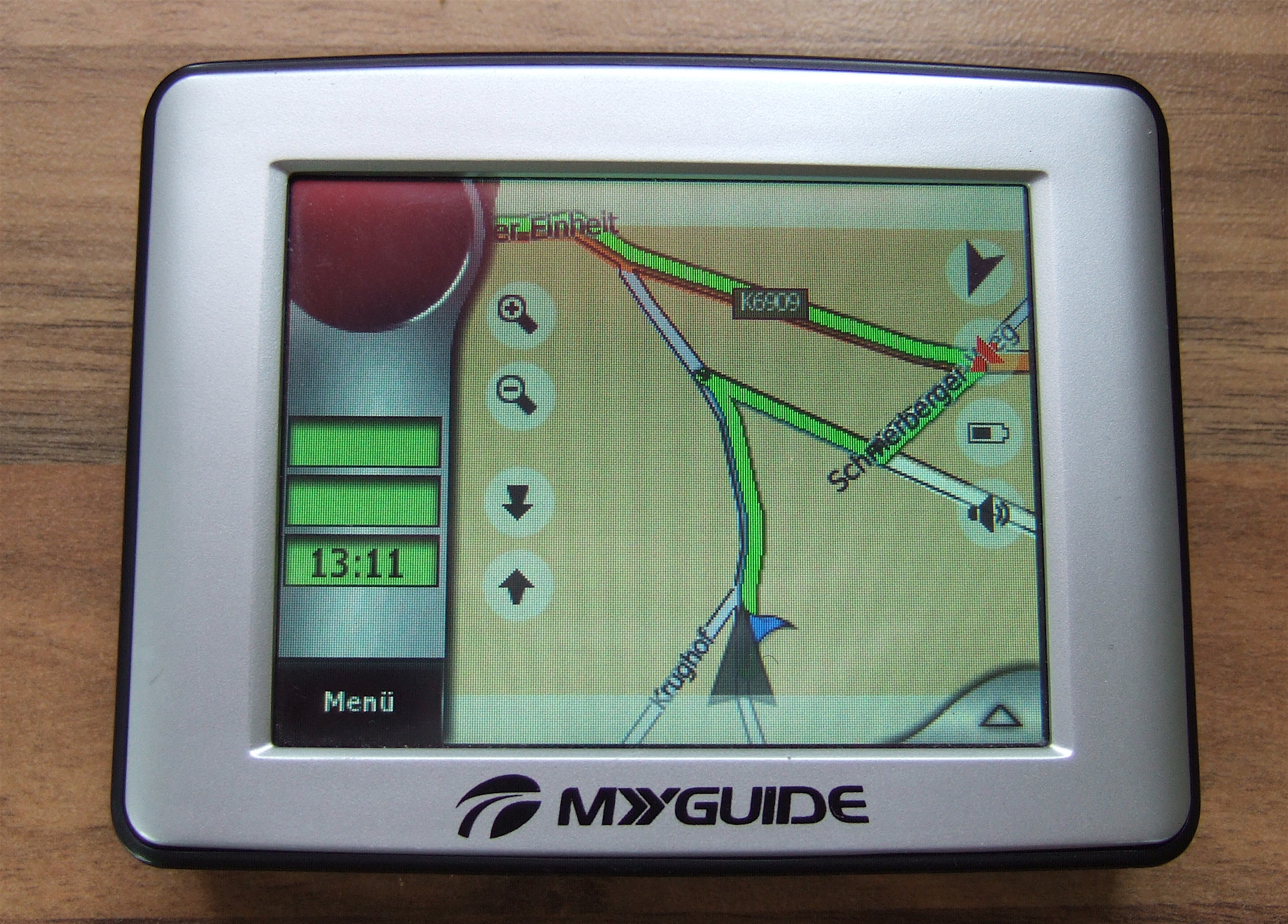 Mobiles Navigationssystem